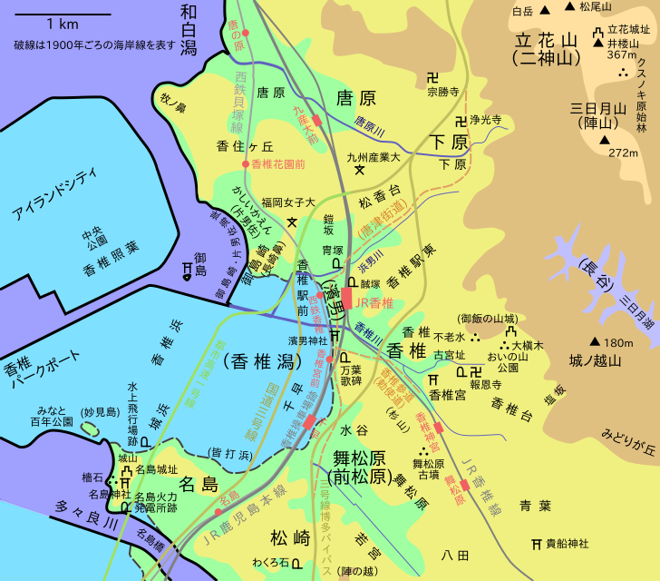 A brief map of the formerly-existed Kashii-gata lagoon and historic sites in Kashii, Fukuoka, Japan